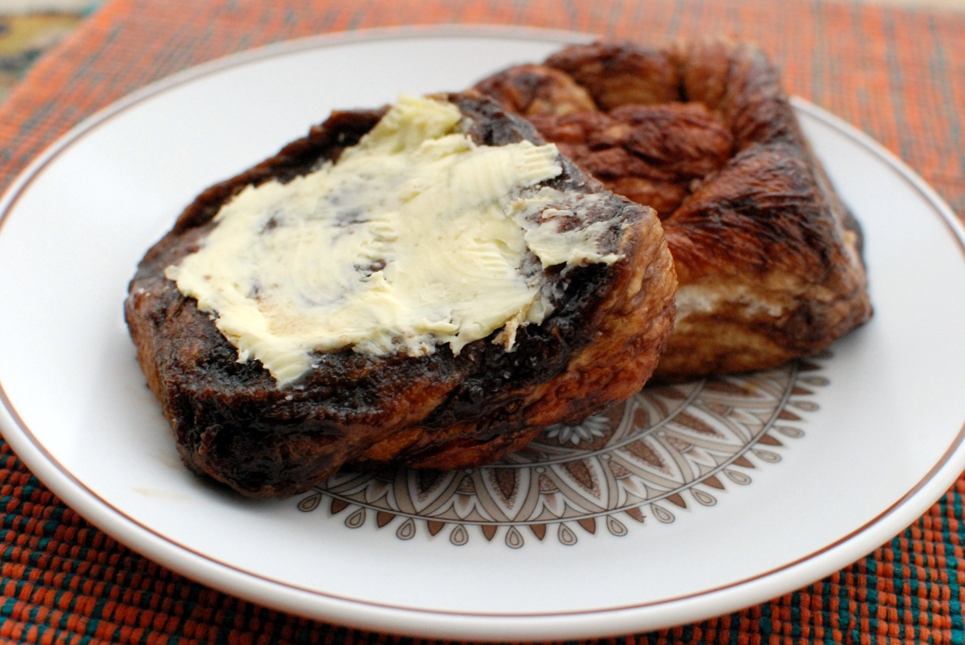 A 'Zeeuwse bolus' is a sweet baked bread from the Netherlands, a speciality from the Dutch province of Zeeland. It is a sweet bread which is covered with caramelised sugar and ground sweet spices, especially cinnamon. A good 'bolus' should still be spongy and elastic even after having been baked. In the province of Zeeland, it is often eaten with (salted Zeeland) butter in the afternoon, together with a cup of coffee. The photo shows one 'bolus' spread with butter, the other still without. The delicacy is, supposedly, of Dutch-Sephardic origin.